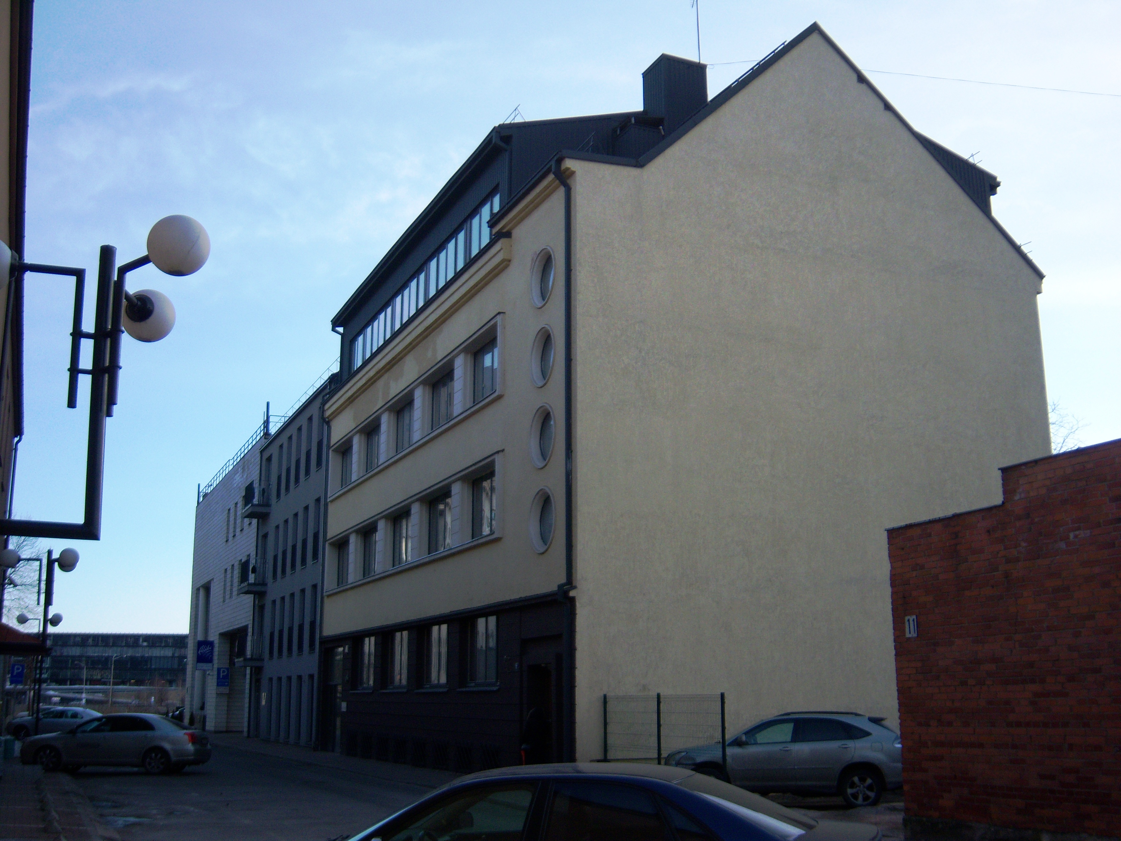 Residential building, Spaustuvininkų str., Kaunas, Lithuania